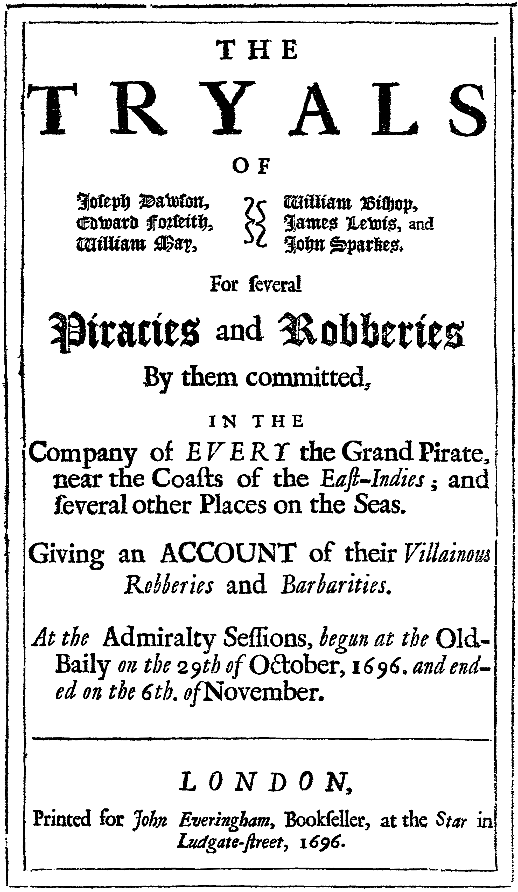 The title page of The Tryals of Joseph Dawson, Edward Forseith, William May, William Bishop, James Lewis, and John Sparkes (London: Everingham, 1696) This report was issued following the trial of some of pirate Henry Every's captured crewmembers by the High Court of Admiralty. The 28-page report was released as a folio pamphlet. It is available at the Library of Congress.